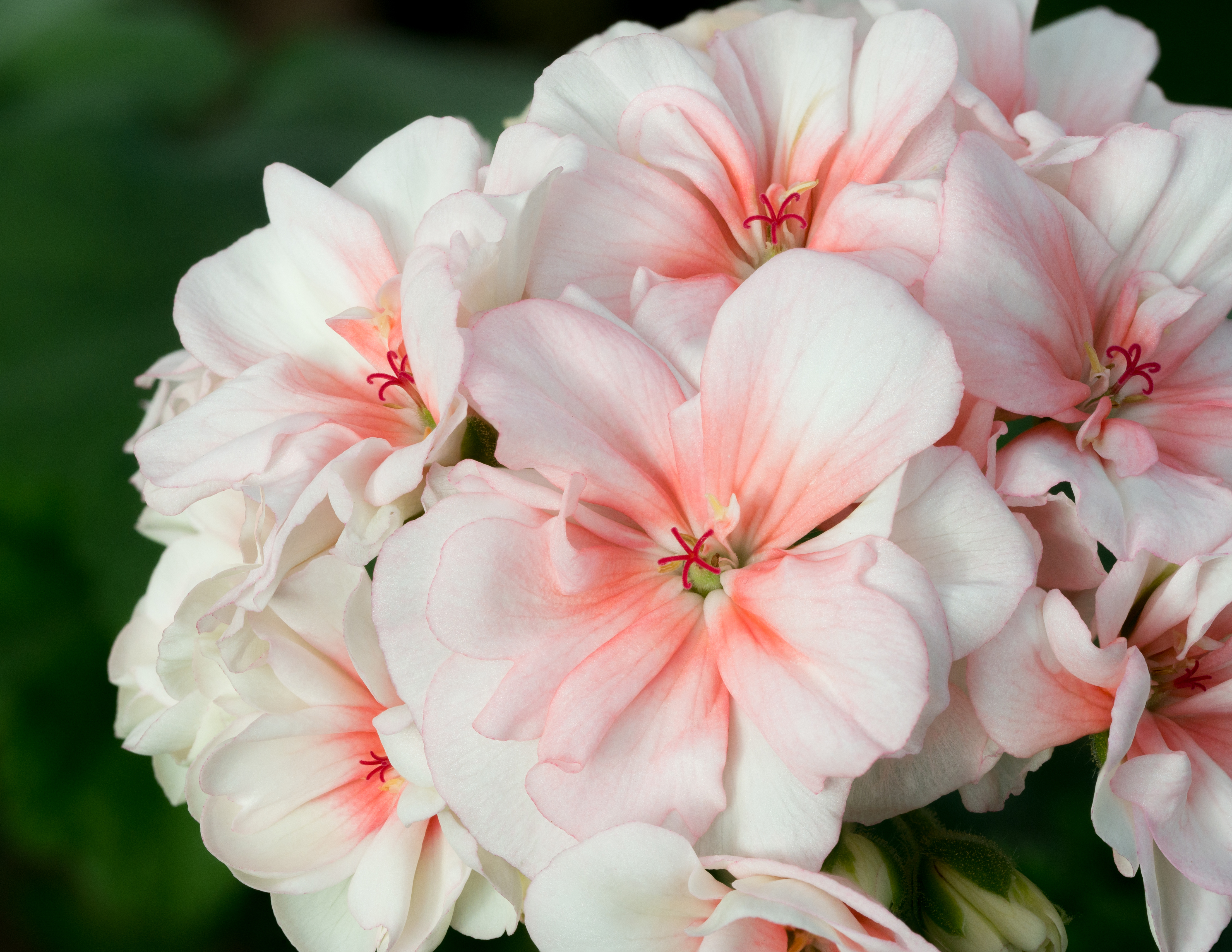 Pelargonium zonale (L.) L'Her. (Geraniaceae), common name Horseshoe geranium. Botanical Gardens Ljubljana, Slovenia. Stacked image. This photograph was taken with a Panasonic Lumix DMC-G85/G80